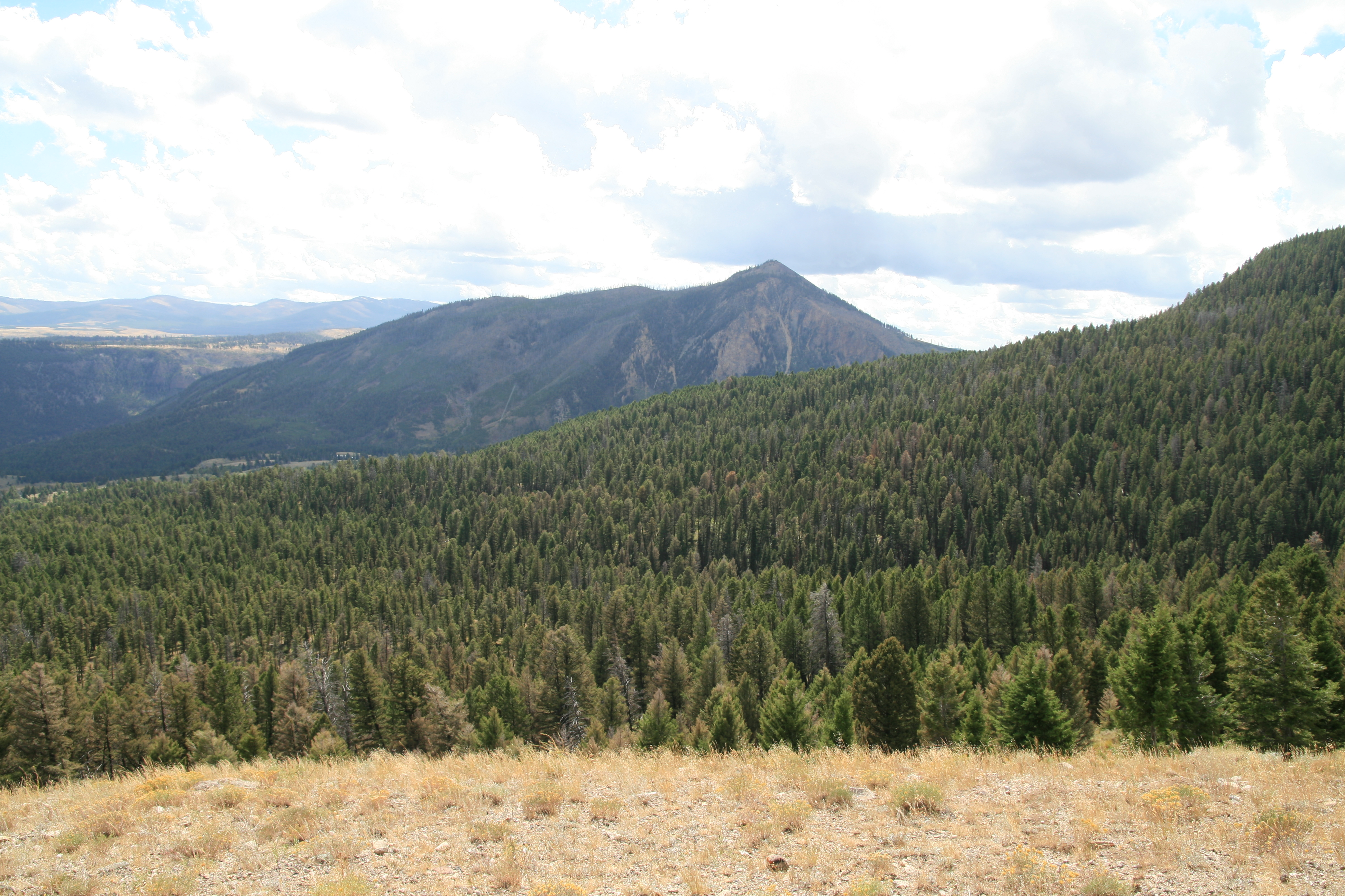 View from Clagett Butter toward Bunsen Peak, Yellowstone National Park, Wyoming, 2008